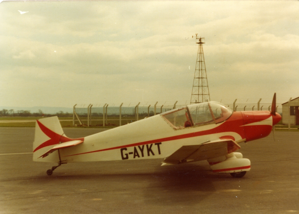 SAN Jodel D117 at Teeside Airport; Year built:1957;Construction Number:507